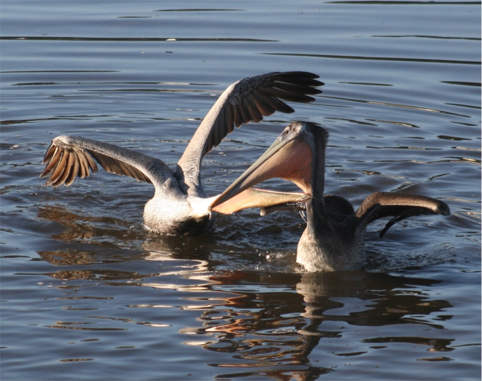 Fighting Brown Pelicans Pelecanus occidentalis.